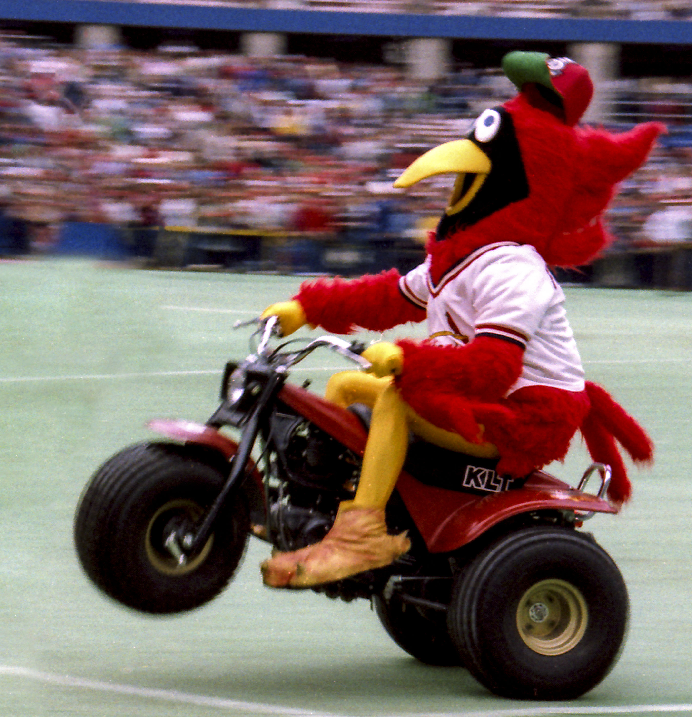 Cardinals mascot, Fred Bird, 1983.